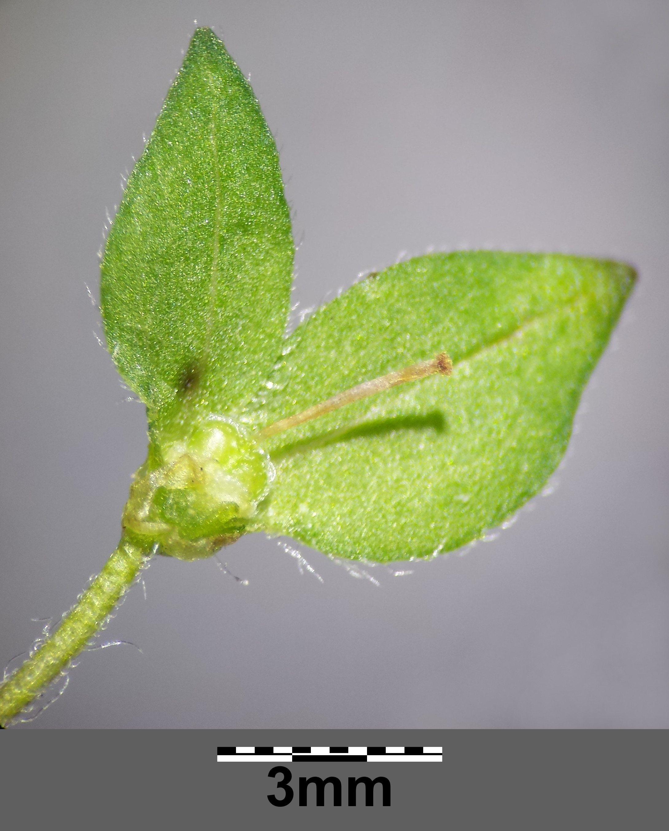 Rudimentary fruit, front sepals removed Taxonym: Veronica filiformis ss Fischer et al. EfÖLS 2008 ISBN 978-3-85474-187-9 Location: Unterschleißheim, district München, Bavaria, Germany - ca. 473 m a.s.l. Habitat: ruderal meadows